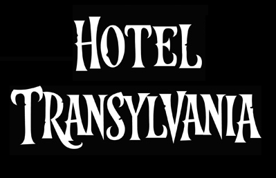 Hotel Transylvania is a 2012 American 3D computer-animated comedy film produced by Sony Pictures Animation and distributed by Columbia Pictures. It was directed by Genndy Tartakovsky, the creator of Samurai Jack, Dexter's Laboratory, and Sym-Bionic Titan, and produced by Michelle Murdocca. The film features the voices of Adam Sandler, Andy Samberg, Selena Gomez, Kevin James, Fran Drescher, Steve Buscemi, Molly Shannon, David Spade and Cee Lo Green.